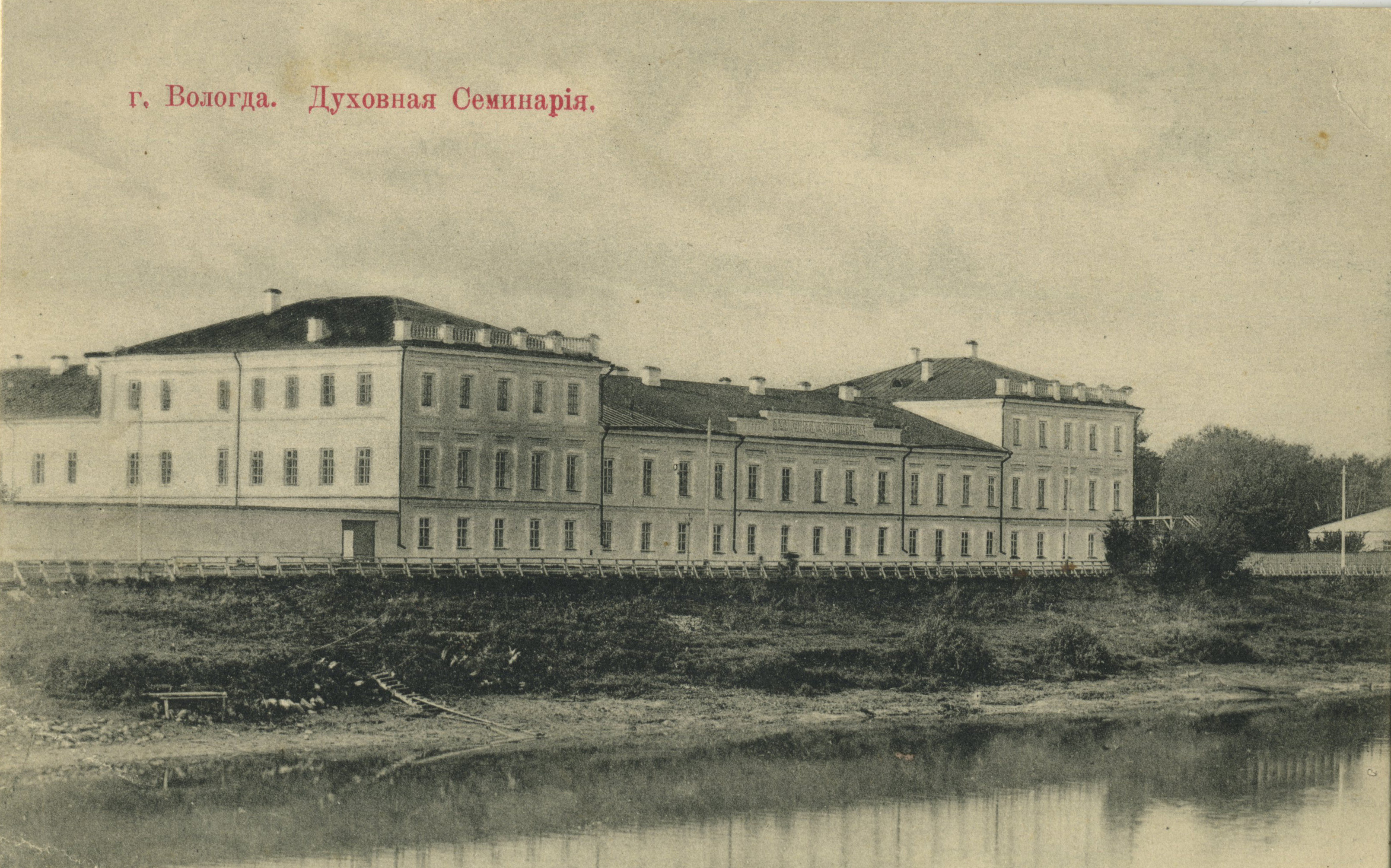 Views of Vologda